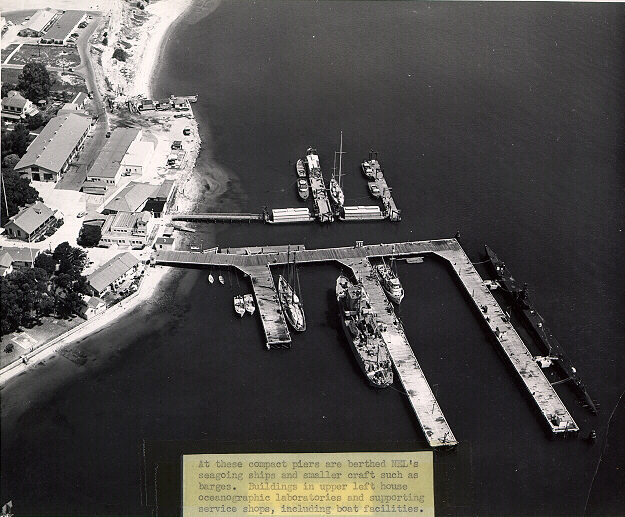 What: At these compact piers were berthed NEL's seagoing ships and smaller craft such as barges. Buildings in upper left housed oceanographic laboratories and supporting service shops, including boat facilities. File Number C109